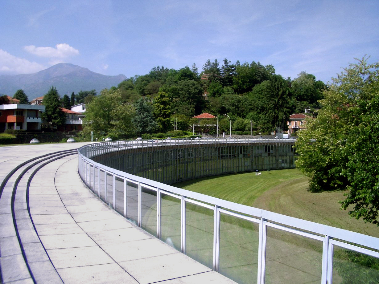 Ivrea, The Open-air Museum of Modern Architecture (Industrial Architecture of Olivetti company) R. Gabetti, A. Oreglia d'Isola, The residential unit called "Talponia"